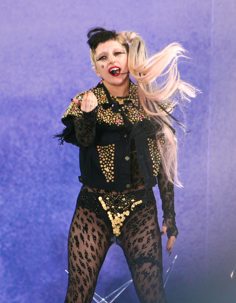 Lady Gaga performing "Judas" on her GMA concert, 2011.